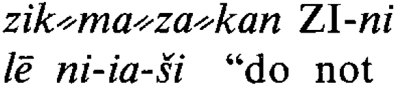 Double oblique hyphen besides (ordinary) single hyphen, as used in: Hans G. Güterbock, Harry A. Hoffner, Theo P. J. van den Hout: The Hittite Dictionary of the Oriental Institute of the University of Chicago (CHD), volume L–N, Chicago (USA) 1989, ISBN 0-918986-58-3, p. 355, detail of the left border of the second column (5th and 6th line)